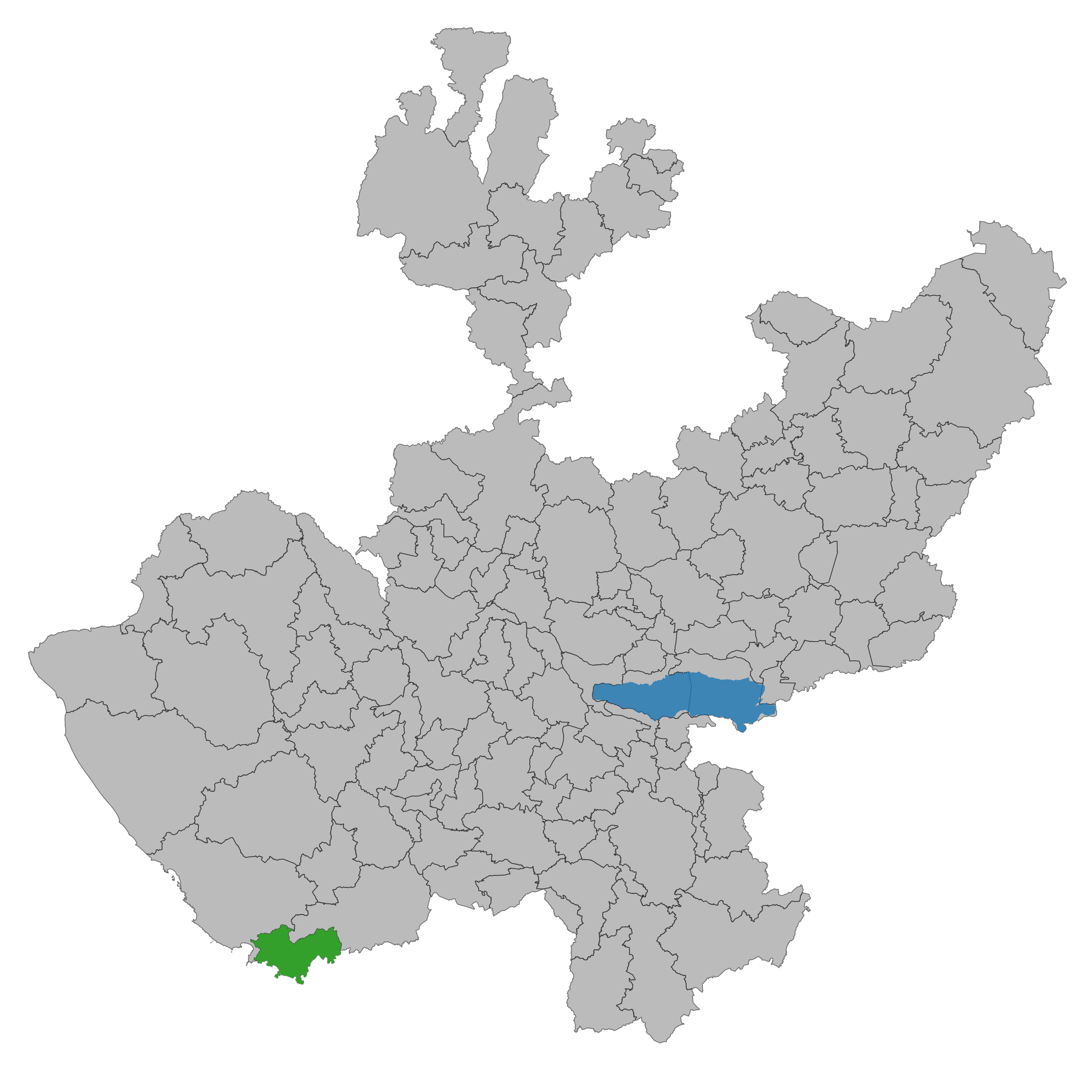 Municipality of Jalisco. Prepared with the software QGIS version 2.8.2 Wien & with information of SCINCE 2010 version 05/2013